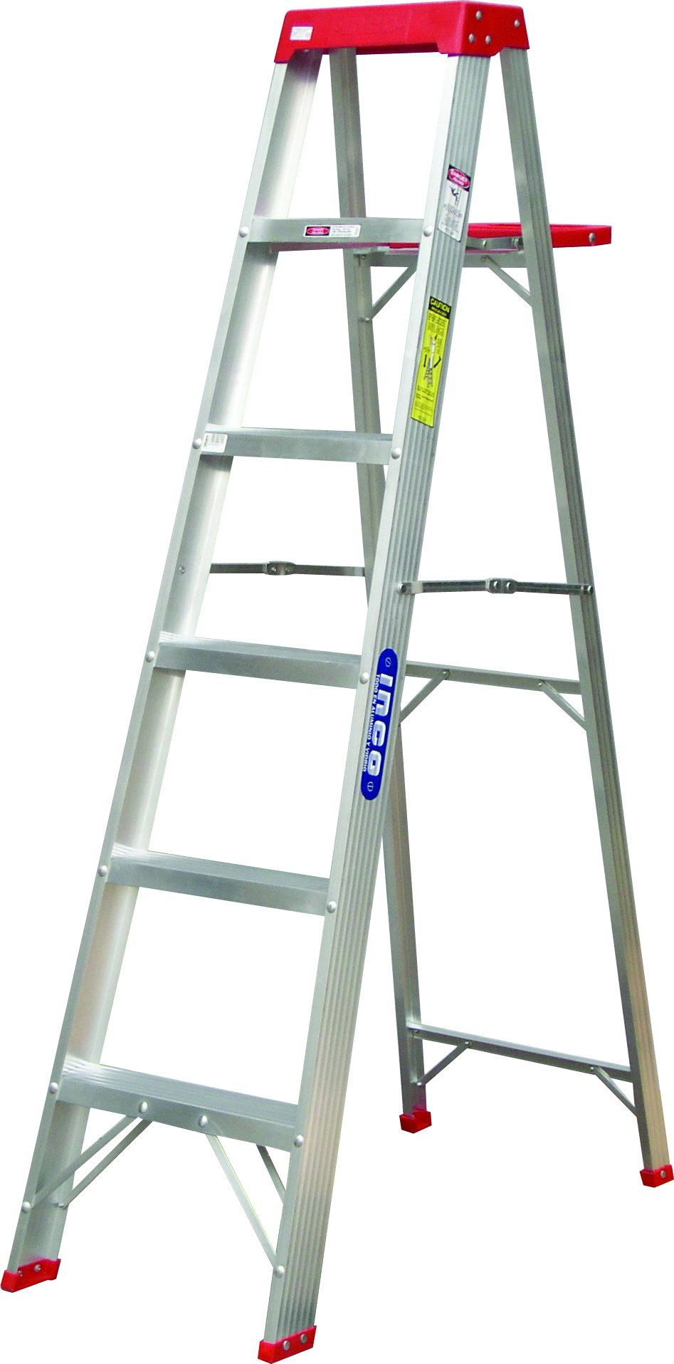 Inco Ladders